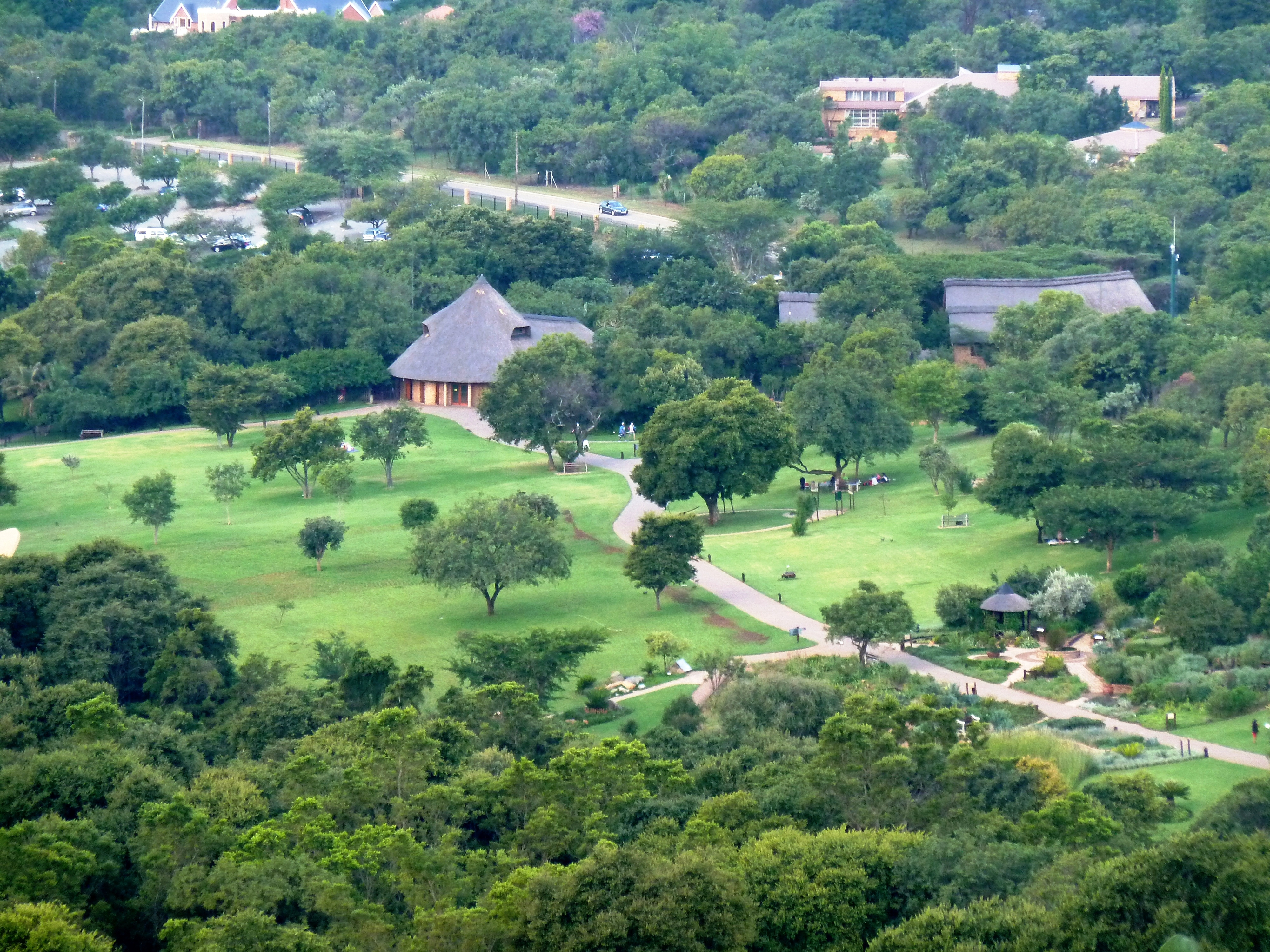 Northeastward view over the Walter Sisulu National Botanical Garden in western Roodepoort, Gauteng